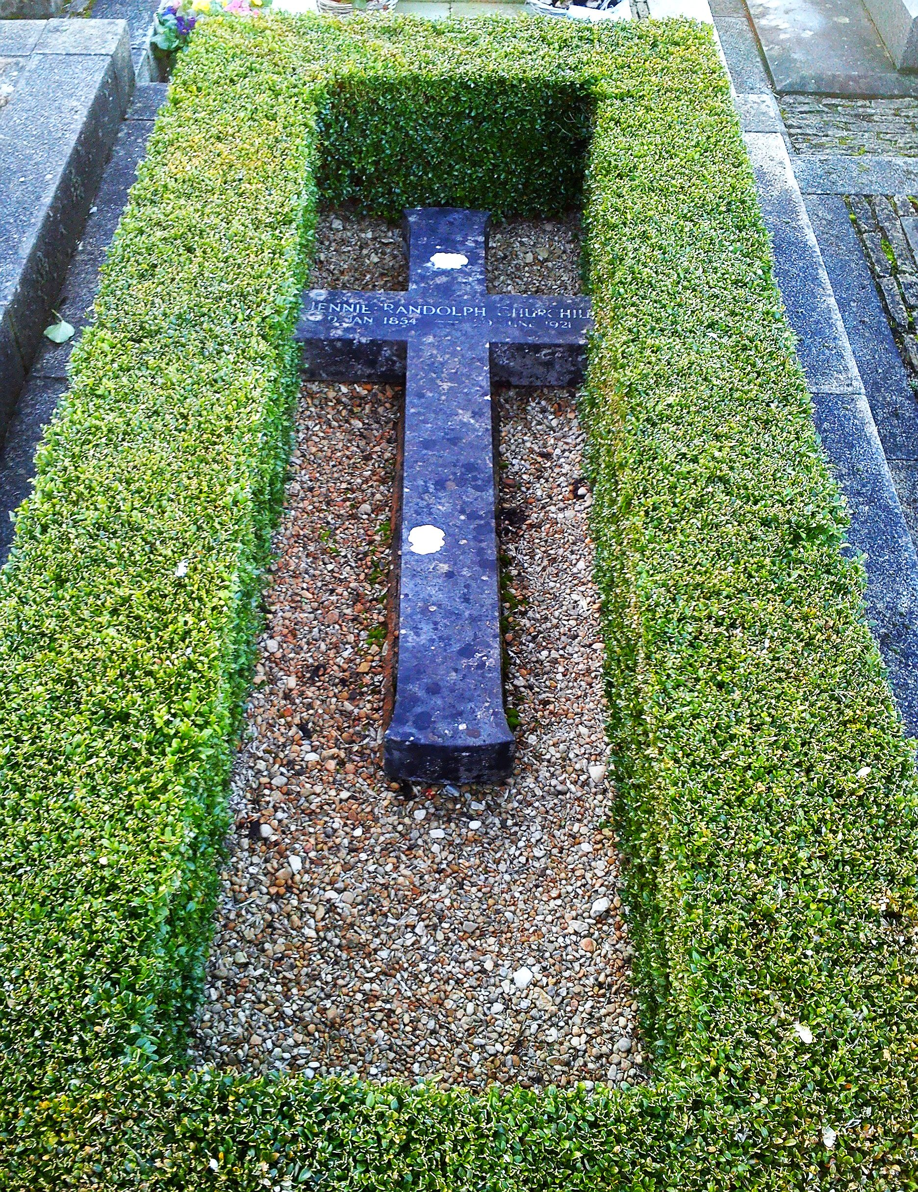 Bladon, Oxfordshire - St Martin's Church - churchyard, grave of Jennie, wife of Lord Randolph Churchill, and mother of Prime Minister Sir Winston Churchill